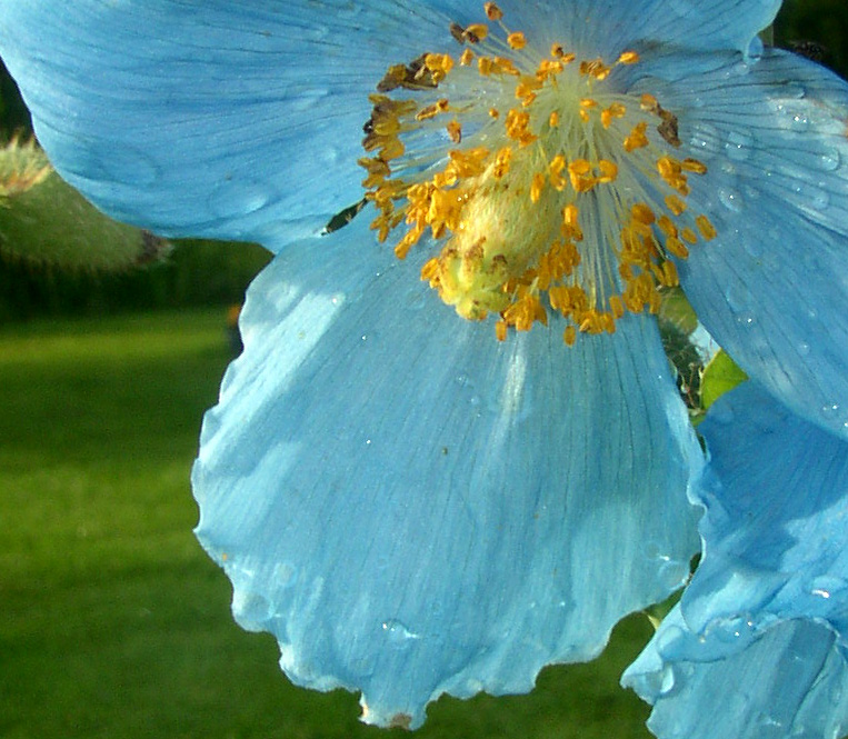 Blue colour on this blue puppy.